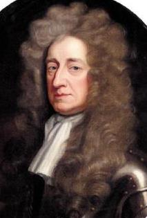 Sir Robert Howard (1626-1698)